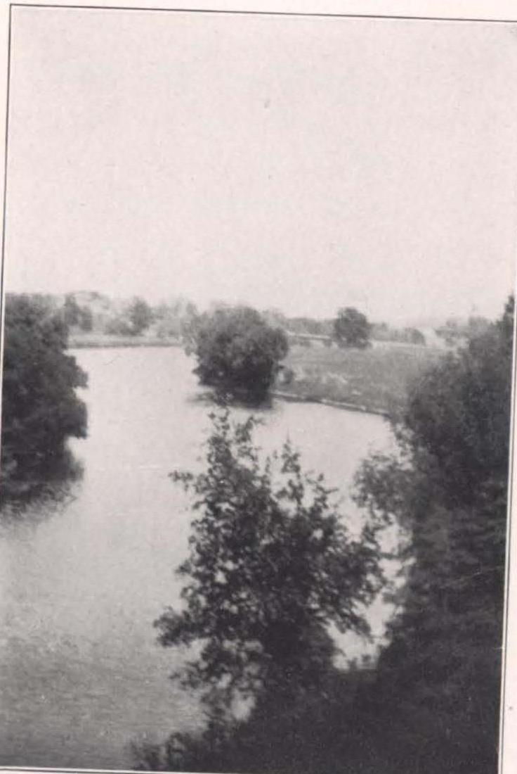 Root River in Racine, Wisconsin. Image from Kipikawi Yearbook 1915 from Racine High School, Racine, Wisconsin, USA (crop from page 4)